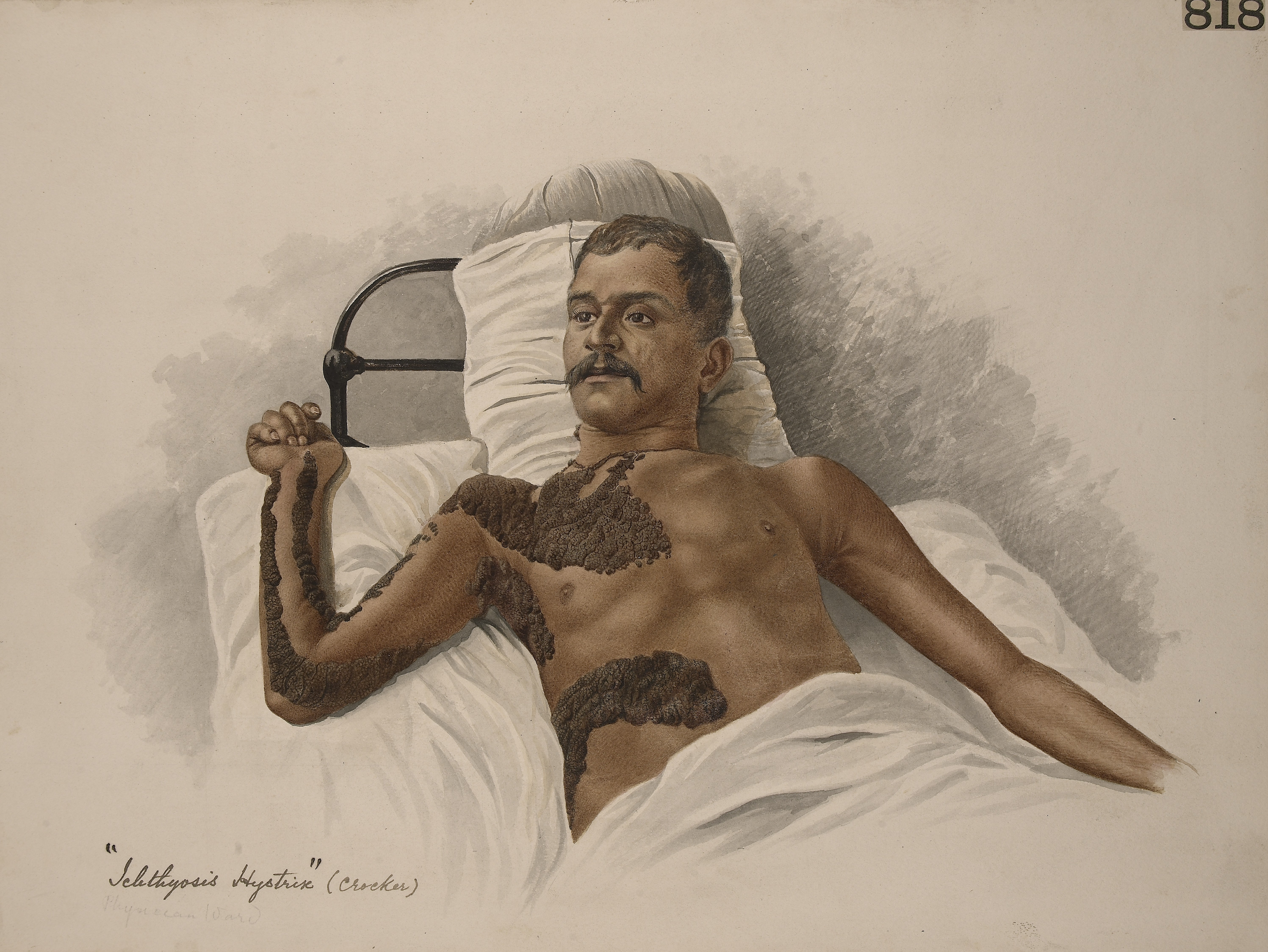 Watercolour and ink drawing of the front of a patient treated in the 1st Physician Ward, Medical College, Calcutta, India, illustrating ichthyosis hystrix of unusual extent. A large part of the skin of the trunk on the right side is occupied by a black warty growth. This extends upwards to the occipital region of the scalp. From the lateral aspect of the main mass three projections pass towards the front. Of these one occupies the right shoulder and upper part of the pectoral regions, a second the right axilla, and a third the right hypochondrium. Upon the skin of the right arm are two long linear growths of a similar character. Medical Photographic Library Keywords: Moustache; Das, Behari Lal; Skin Diseases; Men; Arms; Bed; Ichthyosis; Torso; Man